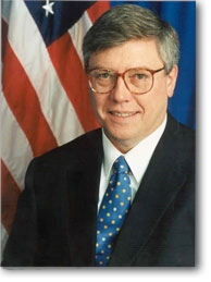 Amb. John K. Menzies, official Department of State portrait